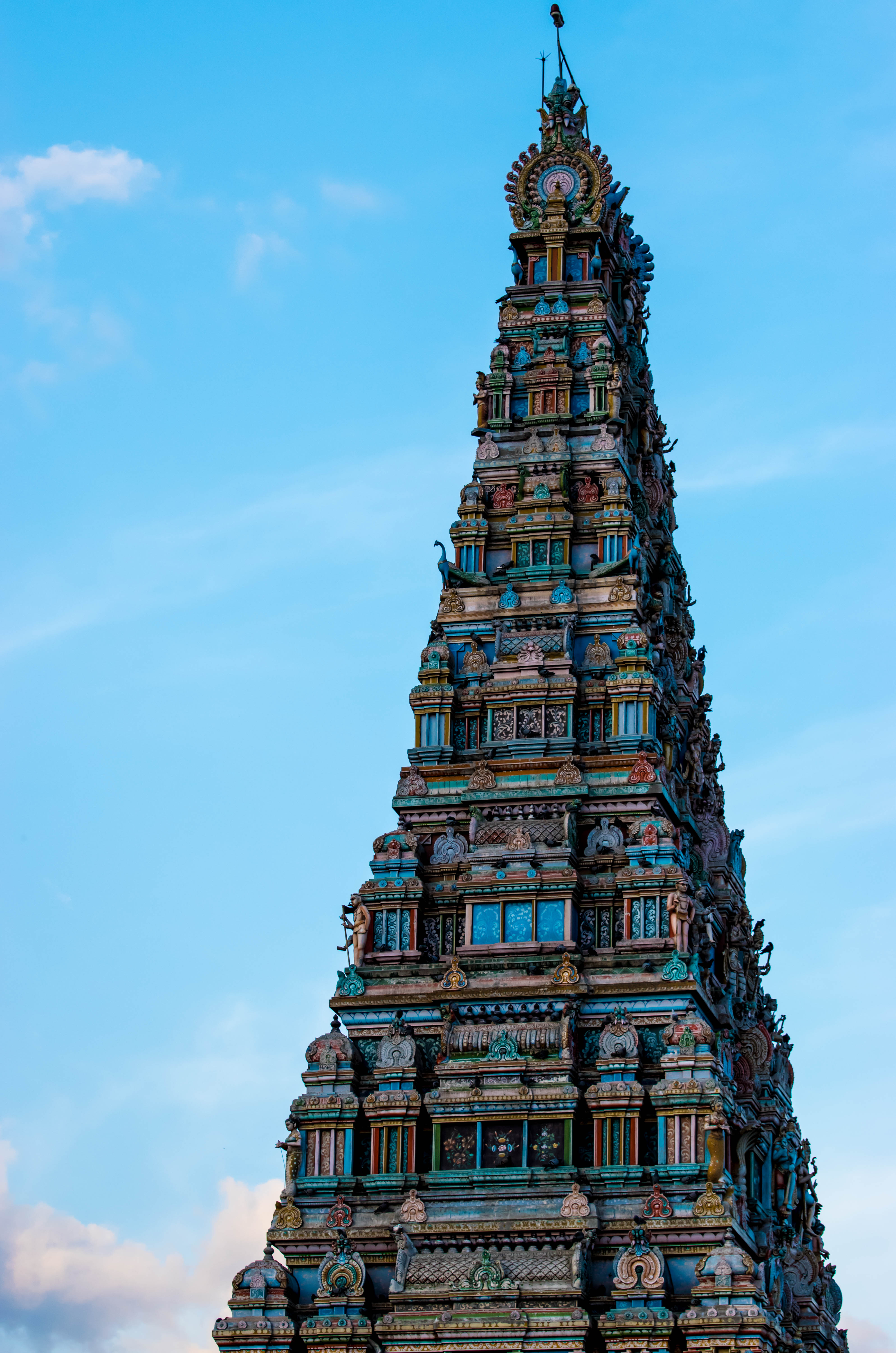 The tallest gopuram of Kumara Swamy temple